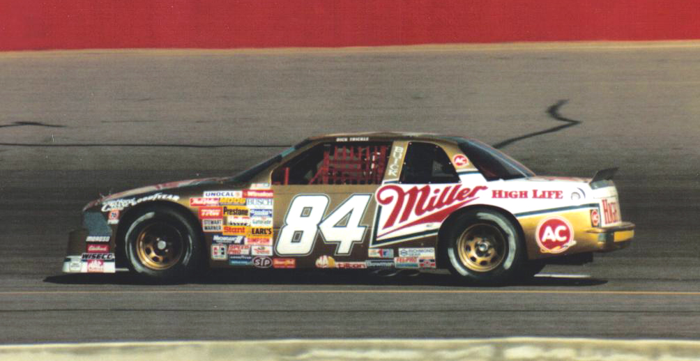 The Stavola Brothers owned Miller High Life Buick #84 driven by Dick Trickle to a good finish of 7th in the 1989 Checker Autoworks 500.